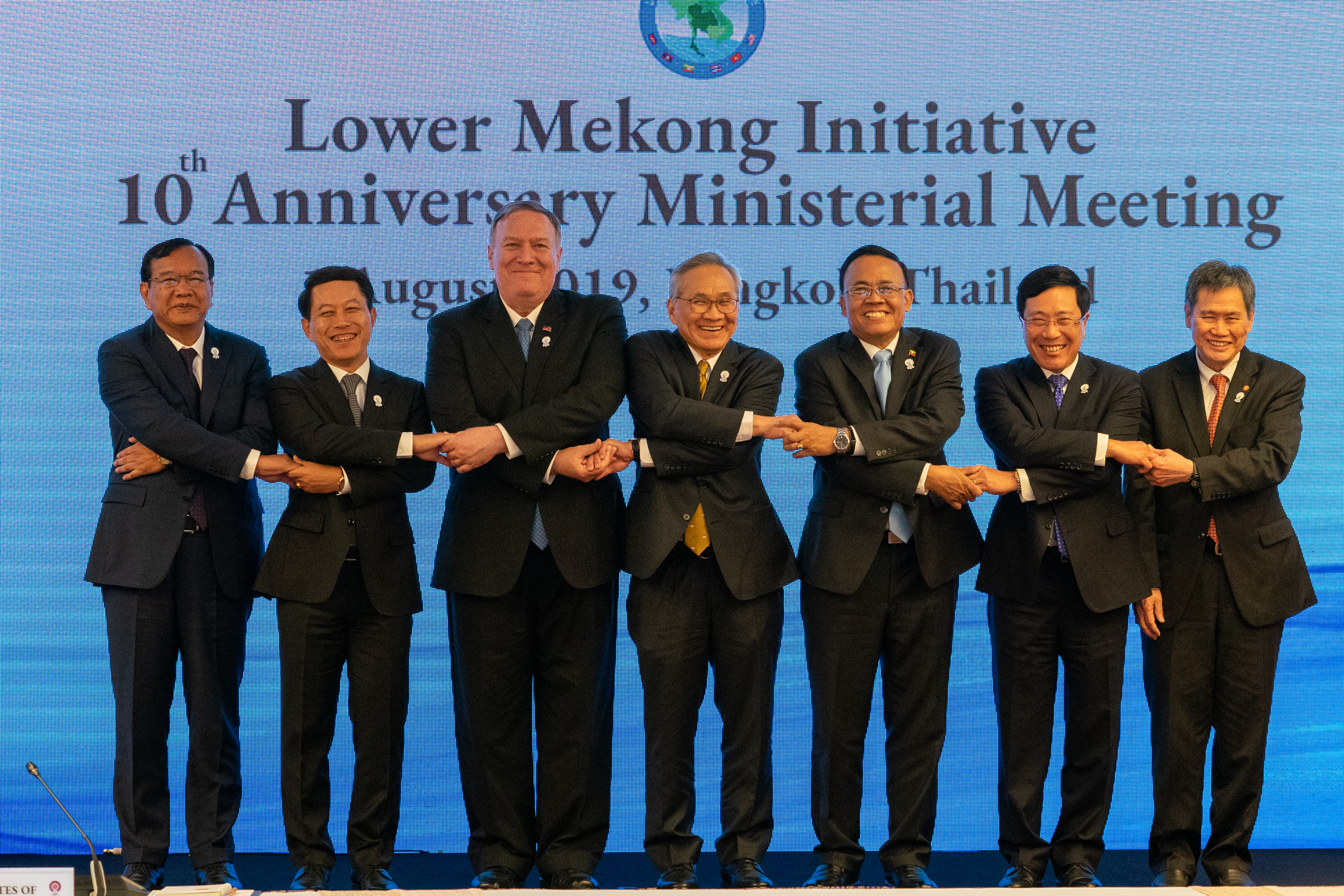 U.S. Secretary of State Michael R. Pompeo participates in a Lower Mekong Initiative Ministerial family photo in Bangkok, Thailand, on August 1, 2019. [State Department photo by Ron Przysucha/ Public Domain]